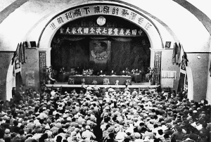 7th National Congress of Communist Party of China